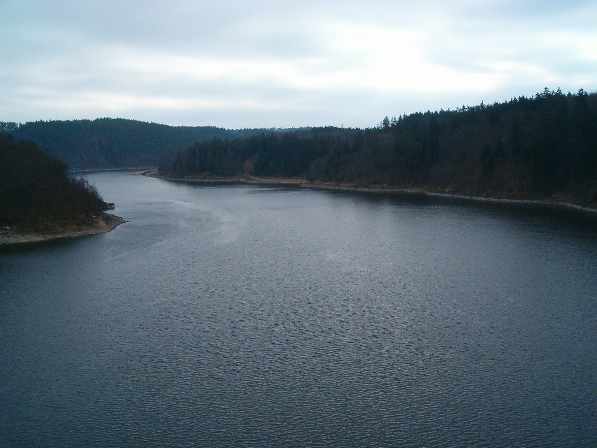 Castle Zvíkov, South Bohemia region By Chmee2´s family